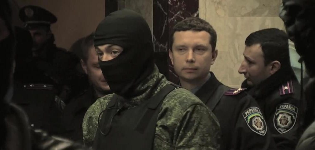 Pro-Russian Militants Seize More Public Buildings in Eastern Ukraine. (Donetsk)